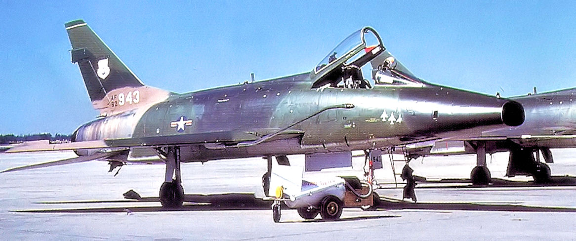 164th Tactical Fighter Squadron - North American F-100D-60-NA Super Sabre 56-2943